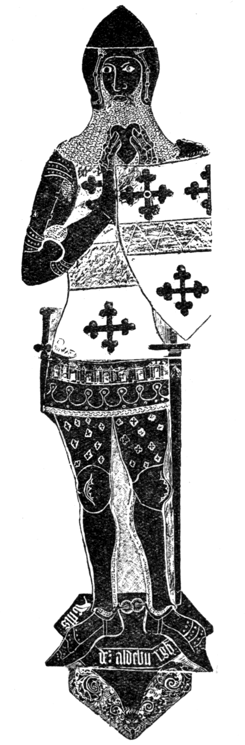 Fig. 26.—Brass of Sir William de Aldeburgh at Aldborough, Yorks. Arms: Azure, a fesse argent between three cross crosslets or. (From a rubbing by Walter J. Kaye.)